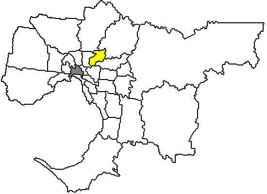 Map of Melbourne, Victoria (Australia), LGA of Banyule City highlighted